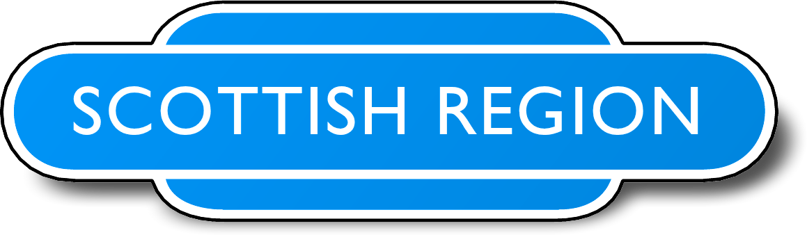 Self-made derivative of the railway station signage used by the British Transport Commission from nationalisation of the railways until the "British Rail" rebrand in the 1960s. Design based on the non-trademarked and not copyrightable station sign shape, with colours taken from standard reference works about the totems in use at the time.